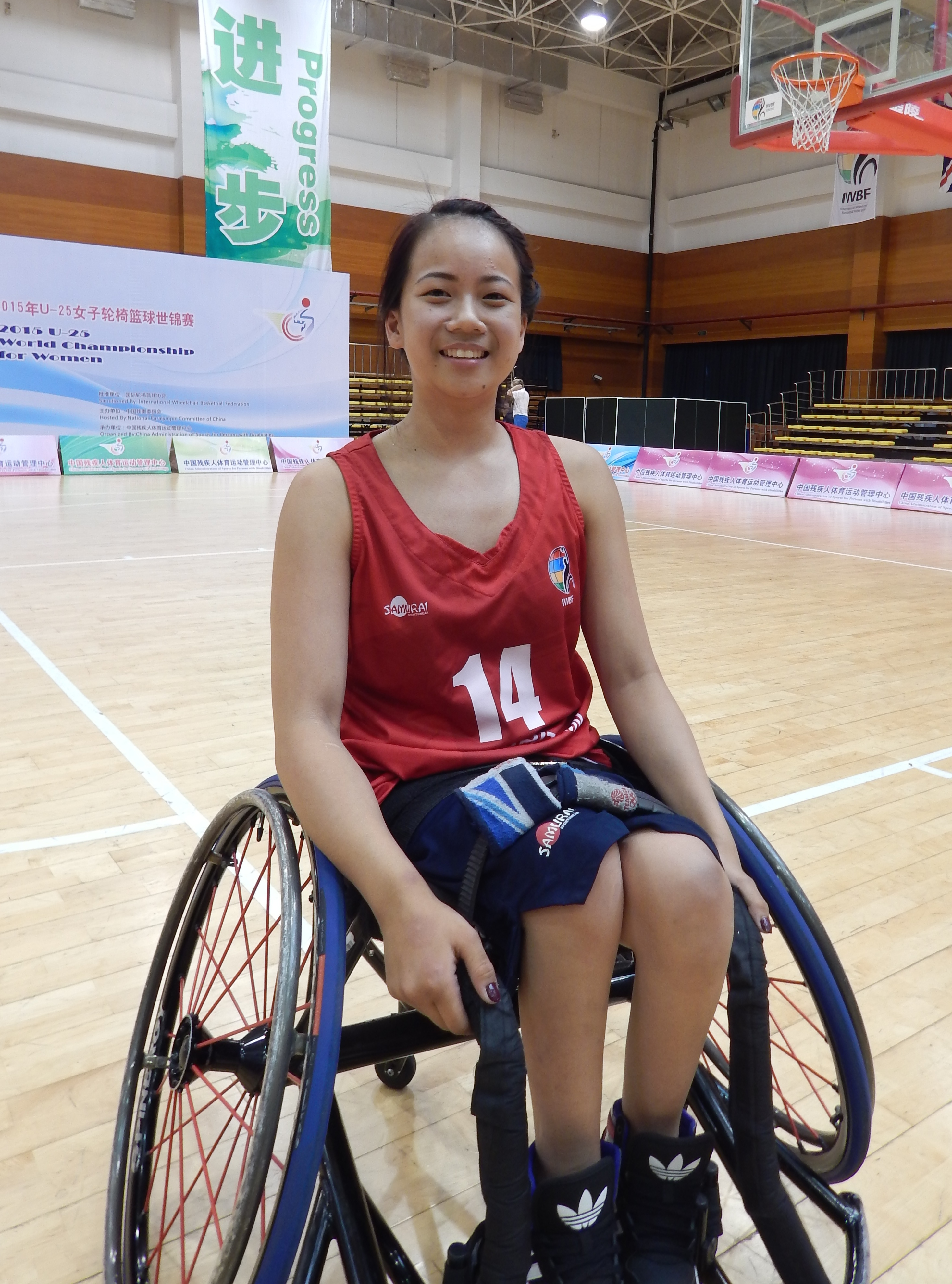 2015 Women's U25 Wheelchair Basketball World Championship - Team Great Britain - Joy-Lan Haizelden